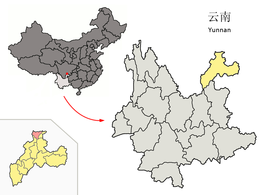 Location of Suijiang County (pink) and Zhaotong Prefecture (yellow) within Yunnan province of China Map drawn in september 2007 using various sources, mainly : Yunnan province administrative regions GIS data: 1:1M, County level, 1990 Yunnan Counties map from Zhaotong Prefecture administrative map from .au